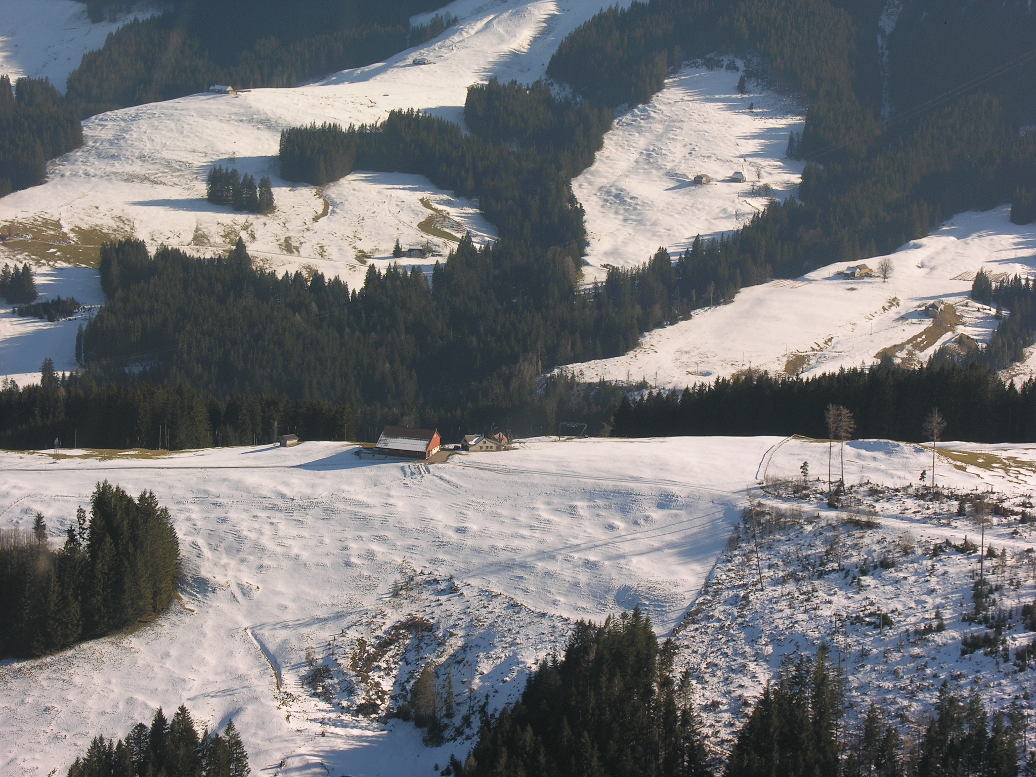 Aerial View overhead Urnäsch